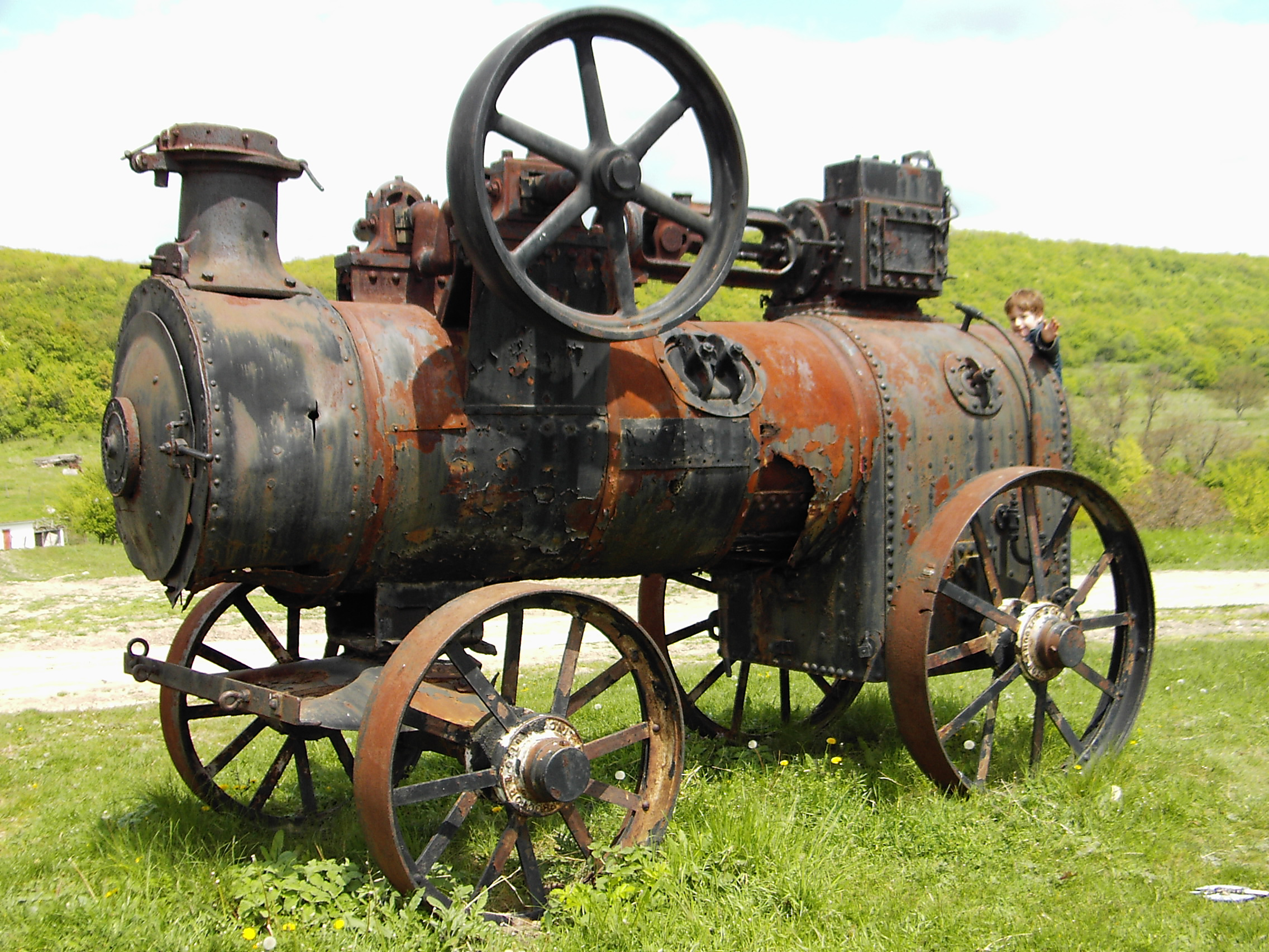 Steam engine Prilep Bulgaria